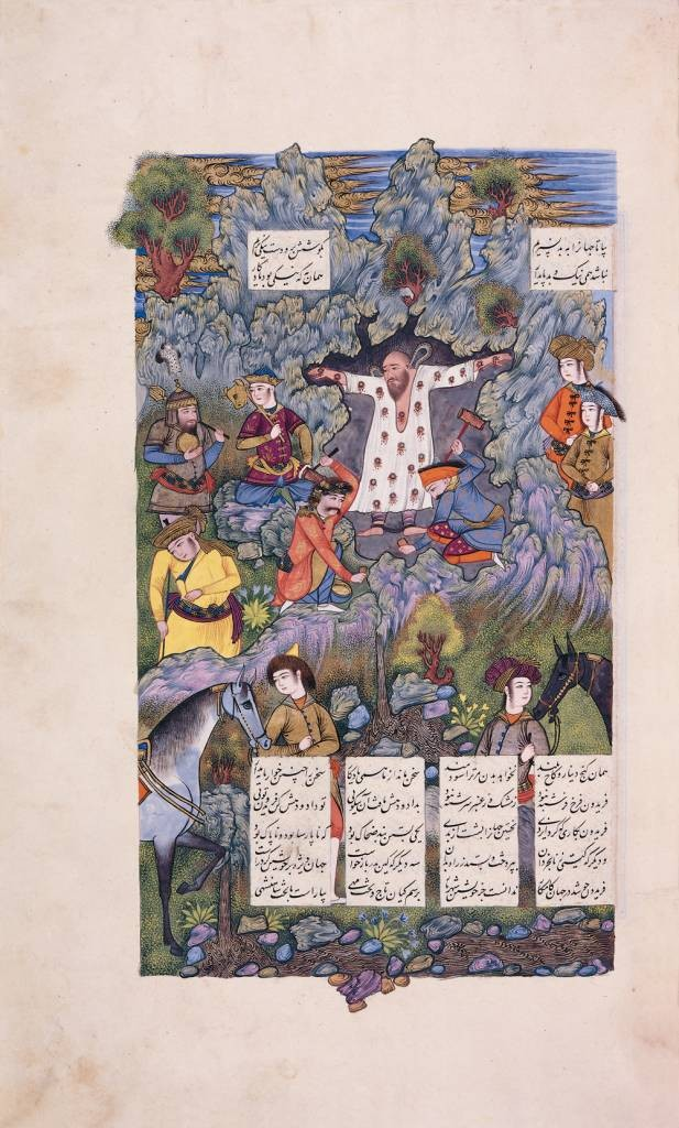 Shahnameh illustration: The tyrant Zahhak, is nailed to the walls of a cave in Mount Damavand